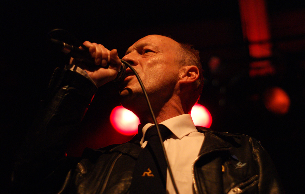 Larry Cassidy performing with Section 25 in 2008.